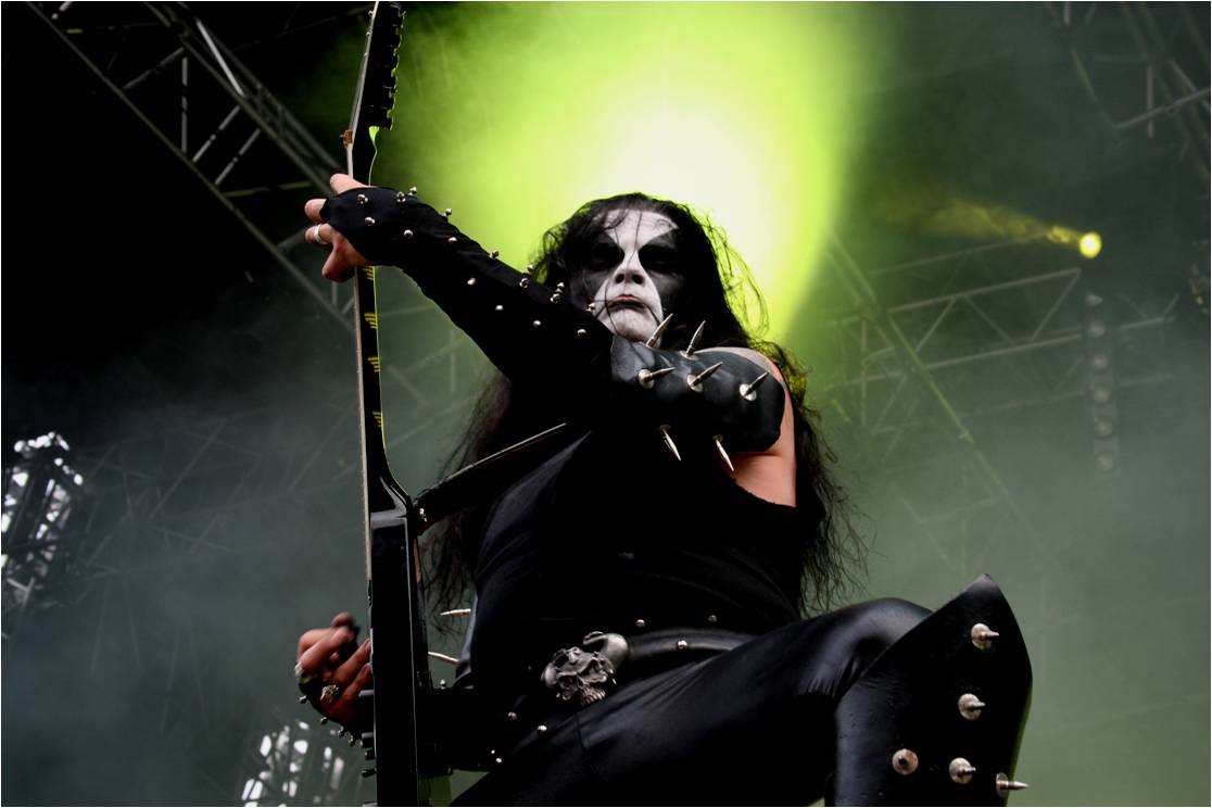 Immortal at Norway Rock Festival 2010